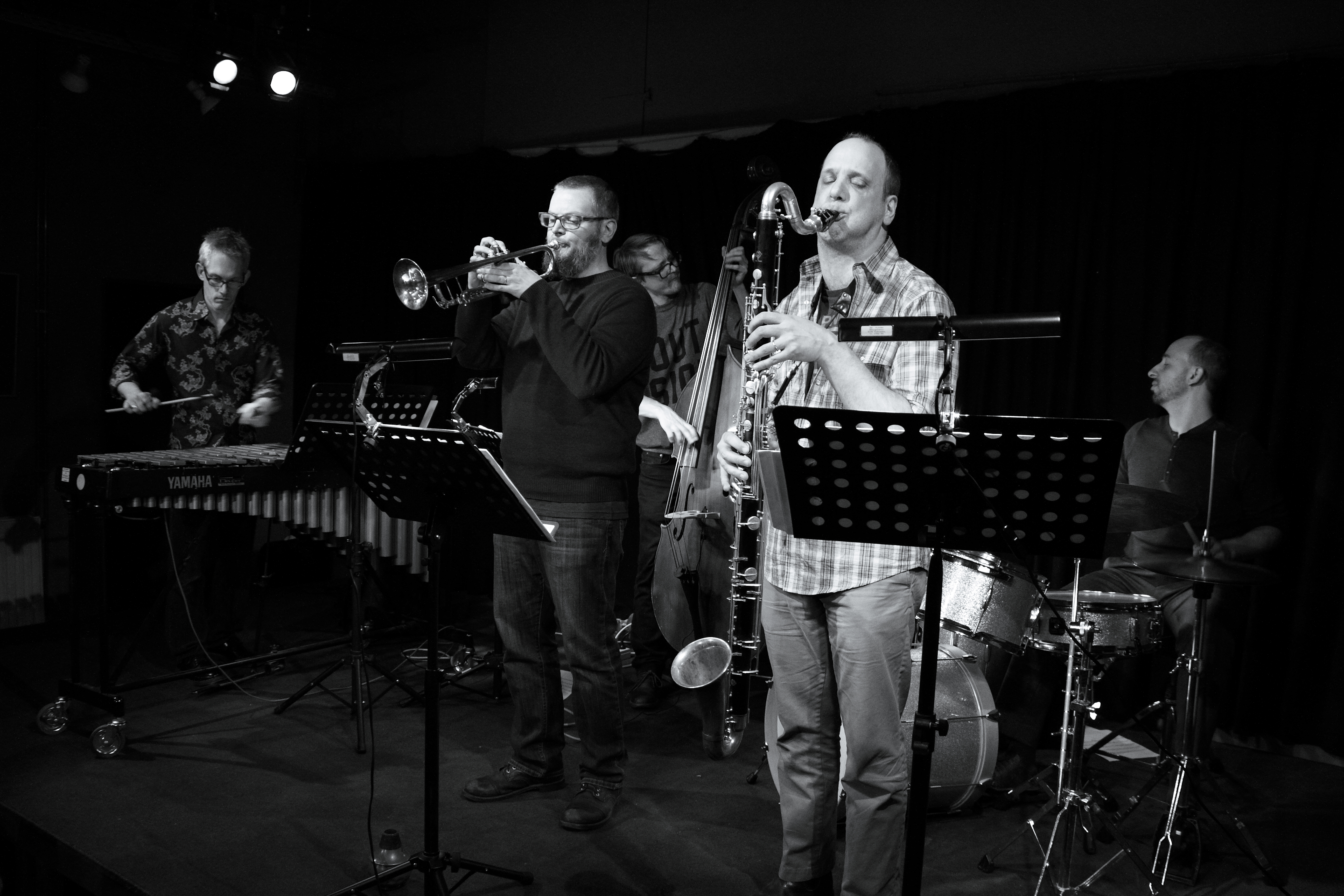 The Nate Wooley Quintet in concert at Club W71, Weikersheim. Mit Nate Wooley (trumpet), Josh Sinton (bass clarinet), Matt Moran (vibraphone), Eivind Opsvik (bass), Harris Eisenstadt (drums).